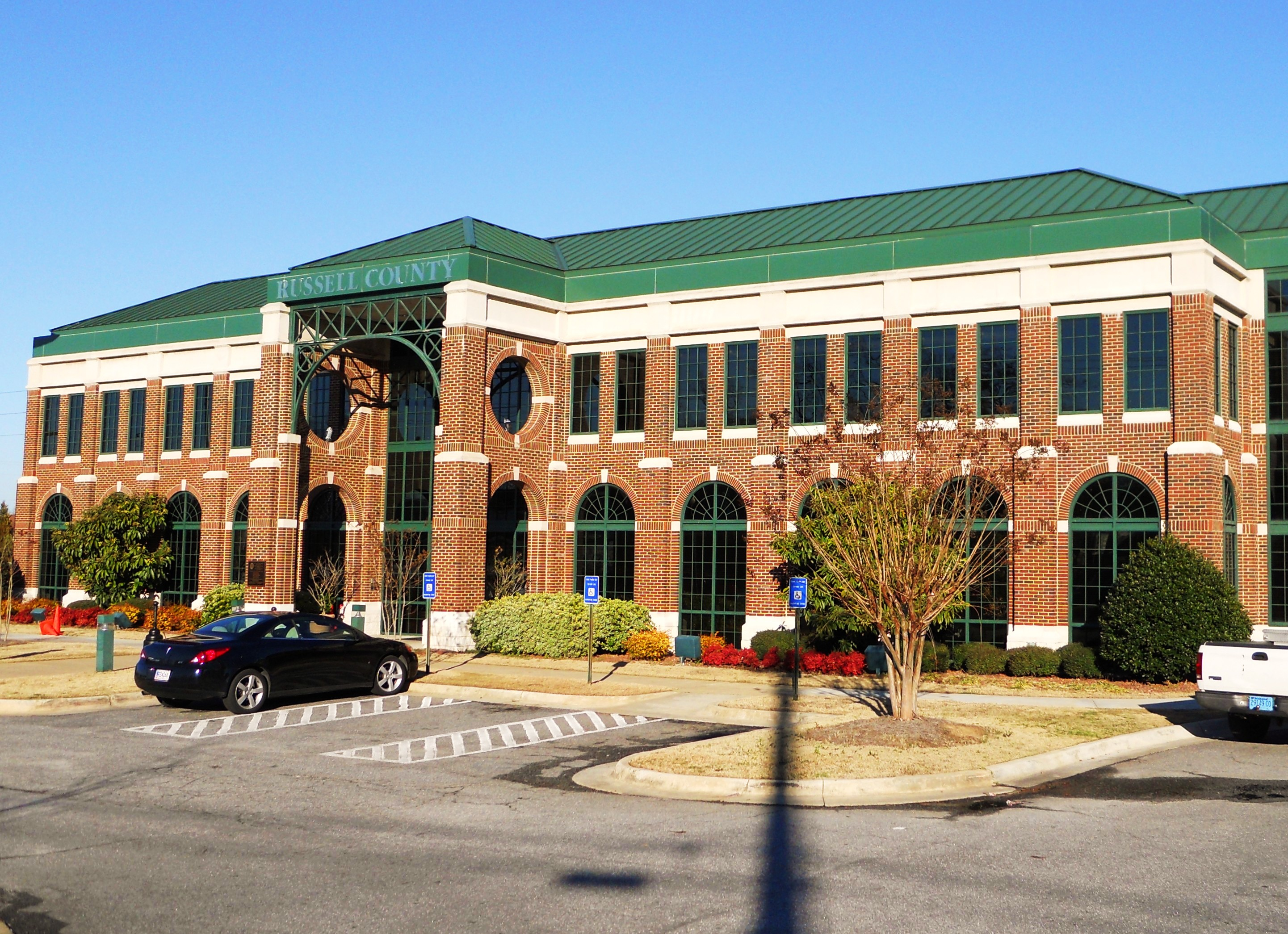 This is a photo of the new Russell County Courthouse in Phenix City, Alabama.